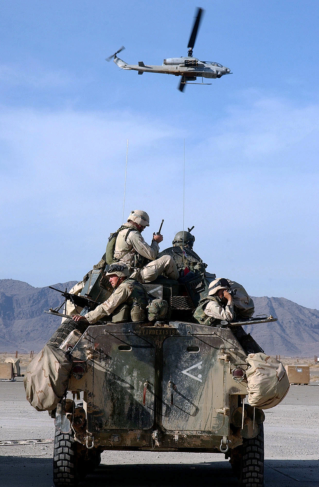 At the U.S. marine corps base in Kandahar, Afghanistan, Dec, 28, 2001 – Marines on a Light Armored Vehicle (LAV) prepare to go on patrol as an AH1W "Super Cobra" helicopter flies by. U.S. marines are in Afghanistan operating in support of Operation Enduring Freedom.